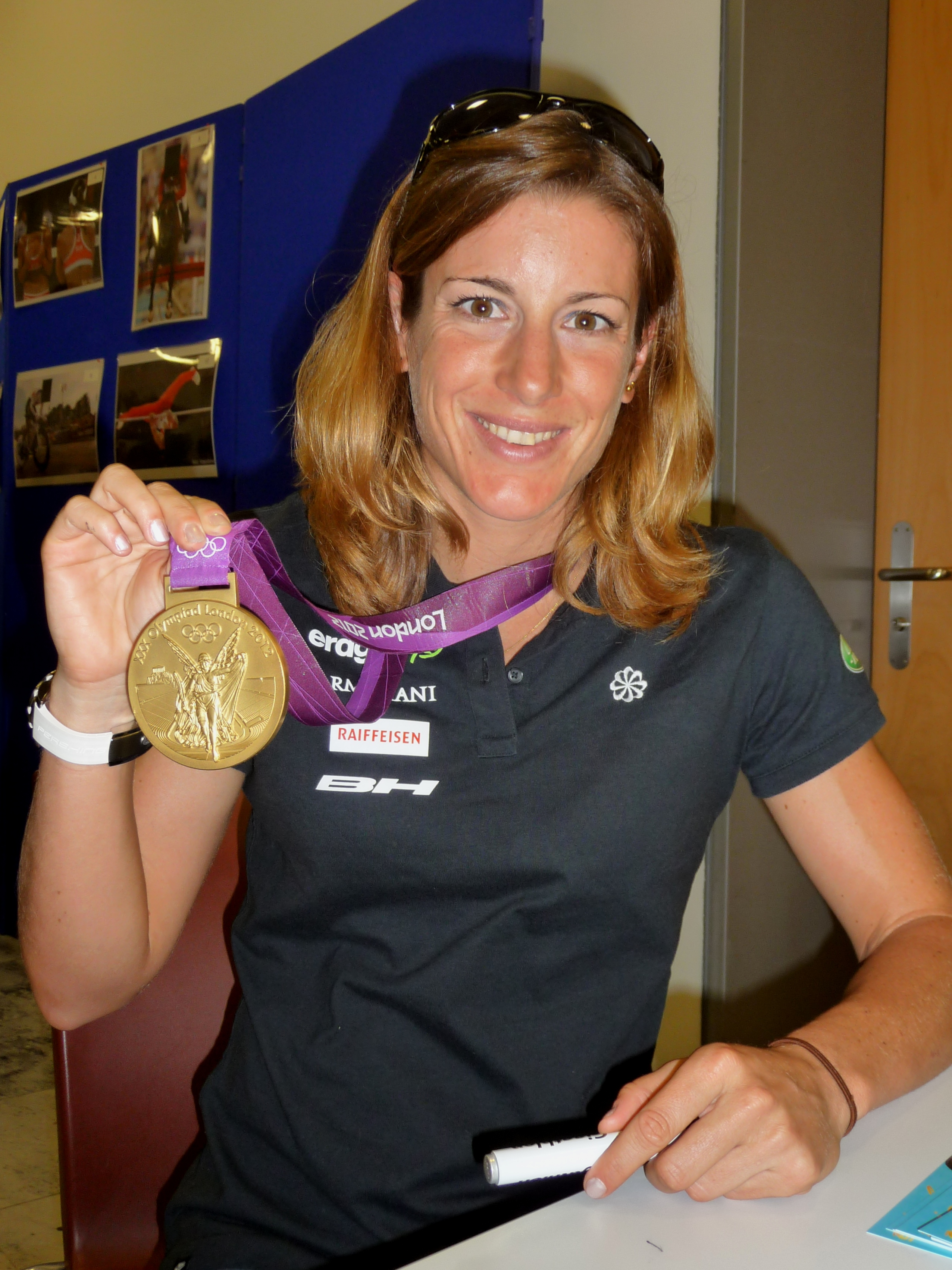 Swiss triathlete Nicola Spirig at "rendez-vous" event in "Haus des Sports", Ittigen, Switzerland